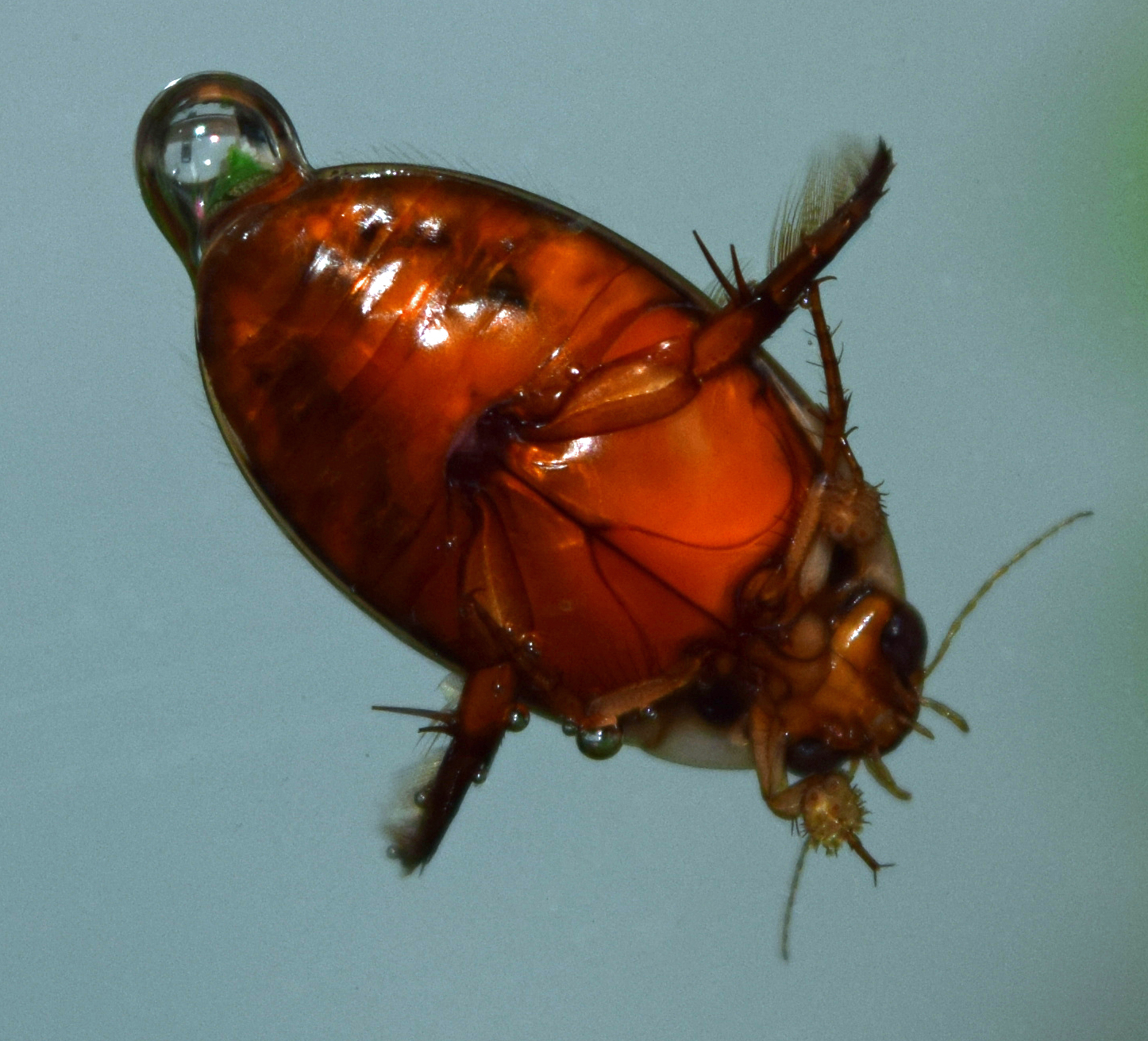 A male Thermonectus nigrofasciatus at the University of Mississippi Field Station.